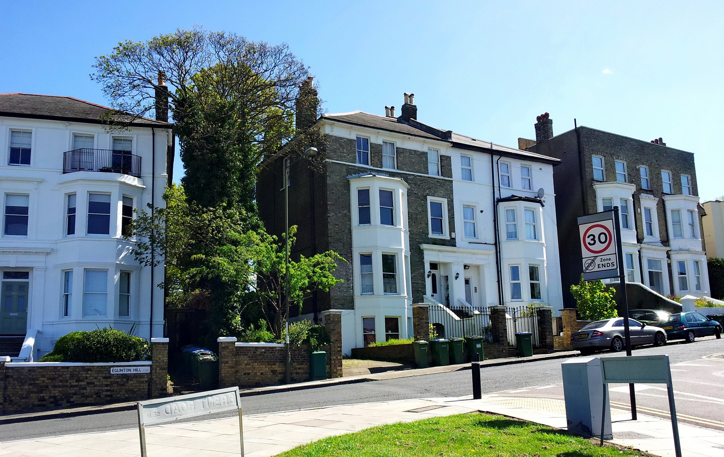 Victorian houses on Eglinton Hill, Woolwich-Shooter's Hill.